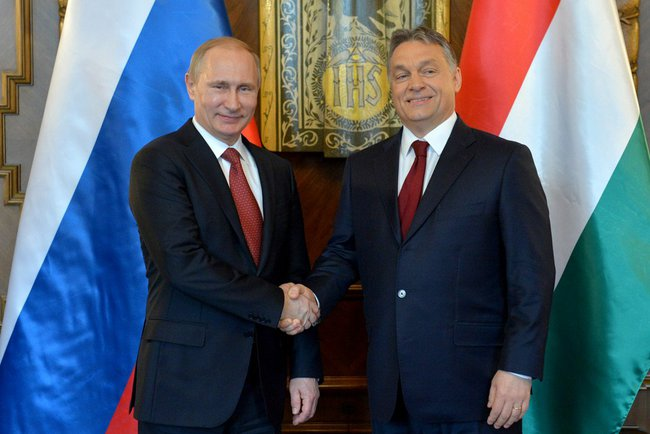 Vladimir Putin with PM Viktor Orbán on a visit to Hungary in February 2015